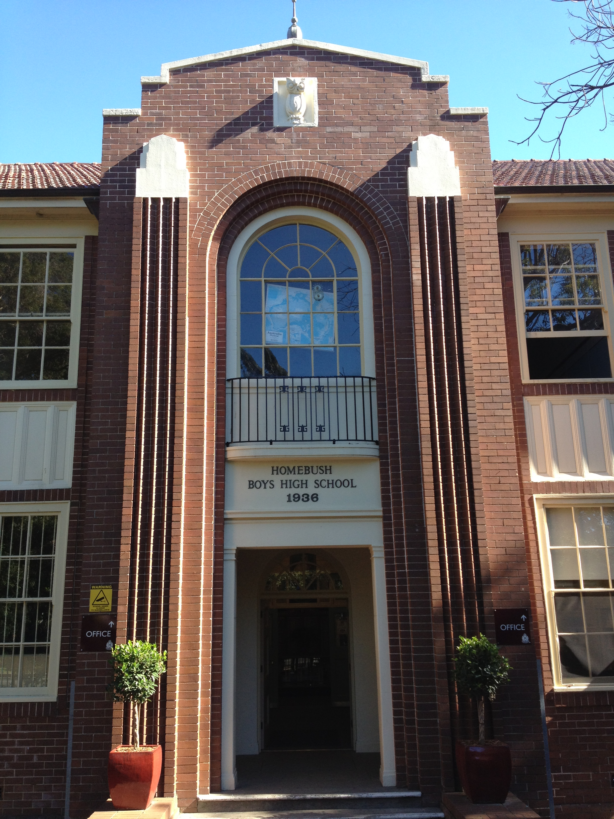 Homebush High School, New South Wales, Australia.